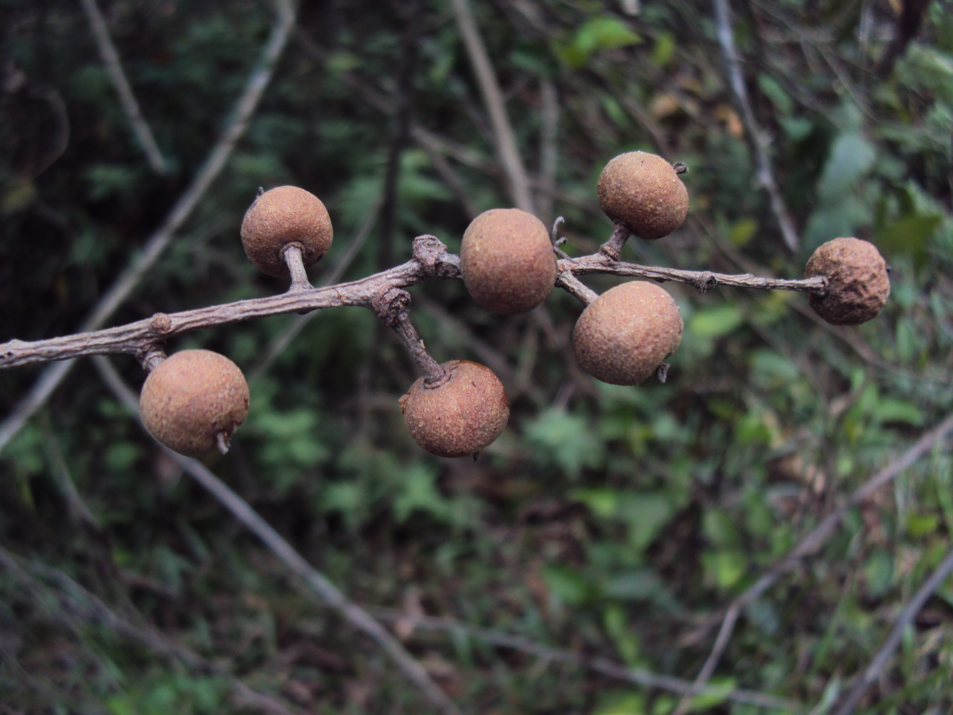 Bischofia javanica